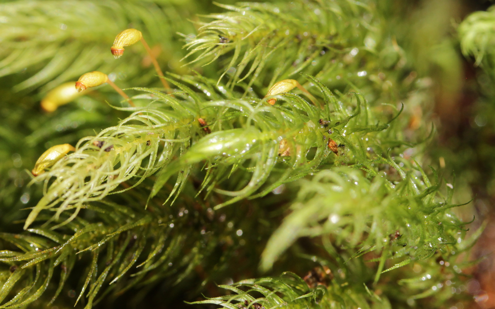 moss, identified by a botanist as likely to be Pyrrhobryum parramattense, at Ferndale Park, Chatswood